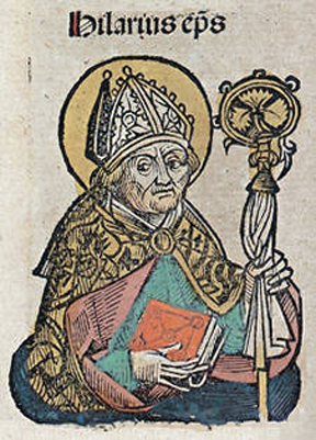 Illustration from the Nuremberg Chronicle